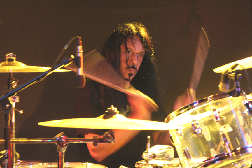 Depicted person: Frankie Banali – American musician